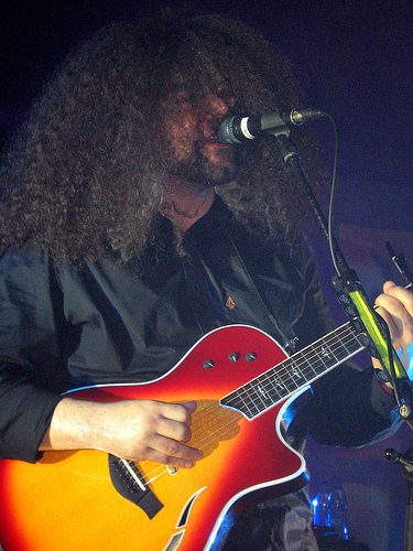 Claudio Sanchez of Coheed and Cambria taken by Jubella 14:06, 7 July 2006 (UTC) in Manchester, England on 2nd February 2006. This is my picture, I took it, I allow it to be used on Wikipedia